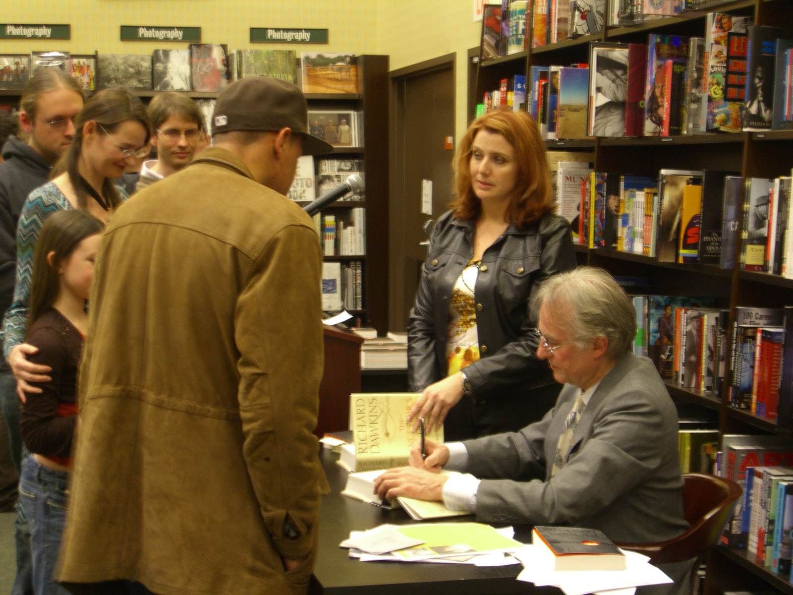 Professor Richard Dawkins at a book signing at Barnes & Noble in lower Manhattan, March 14, 2008.